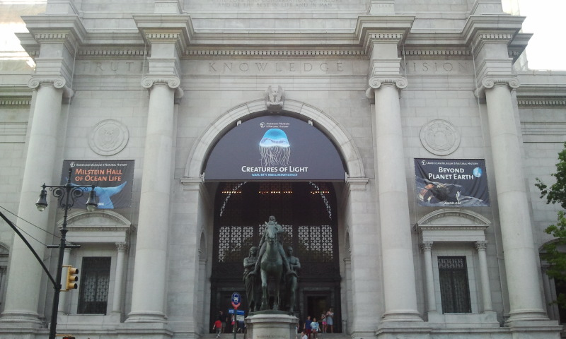 American Museum of Natural History